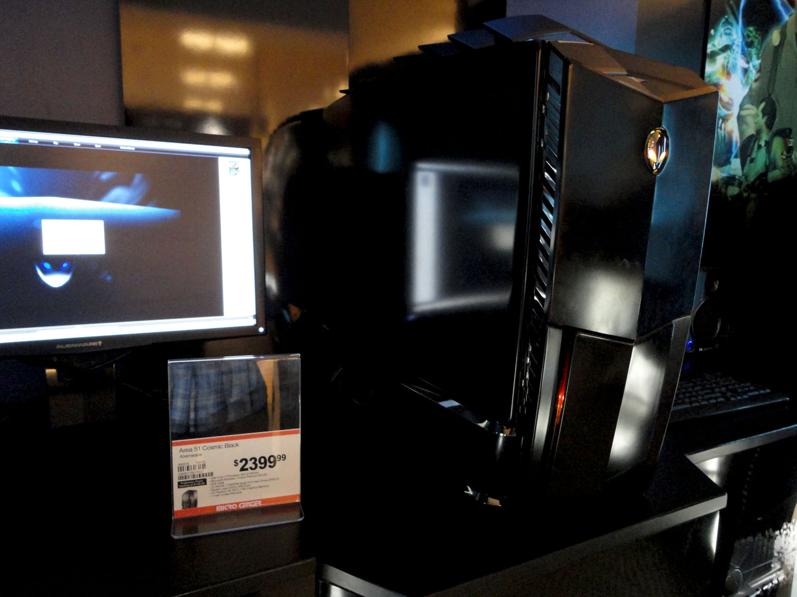 A black Alienware Area 51 displayed in a shop.